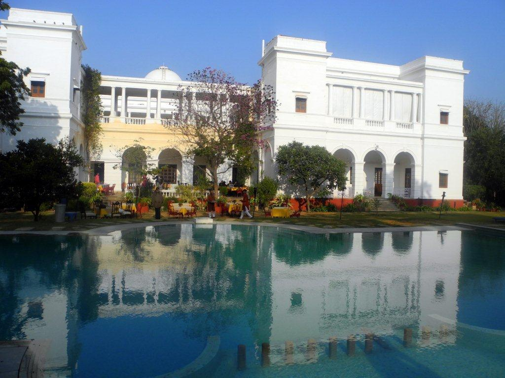 Pataudi is a town in Gurgaon district in the Indian state of Haryana. It is located 26 kilometres (16 mi) from Gurgaon, at the foot hills of the Aravali hills.[1] Pataudi Road is included as the new growth corridors in Gurgaon.[2] Pataudi was the seat of Pataudi State which was ruled by the Nawabs of Pataudi. The 8th Nawab, Iftikhar Ali Khan Pataudi, played cricket for both England and India and captained the latter. His son the 9th Nawab also captained the Indian cricket team. In 2007 the MCC commissioned the Pataudi Trophy in honour of the 8th Nawab, to be given to the winners of Test cricket series between England and India.